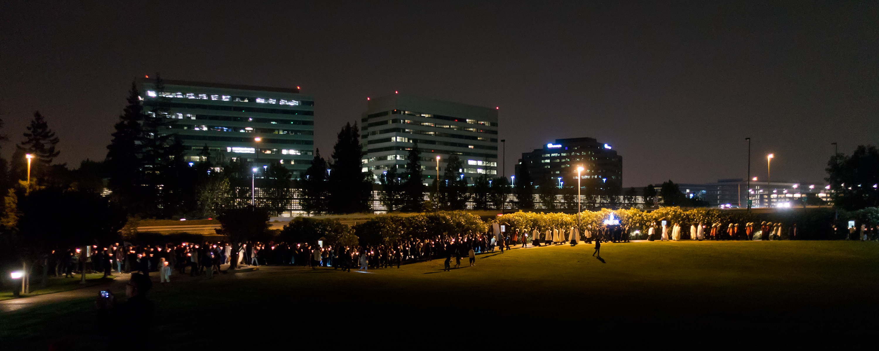 Fatima rosary procession at Our Lady of Peace Church and Shrine.